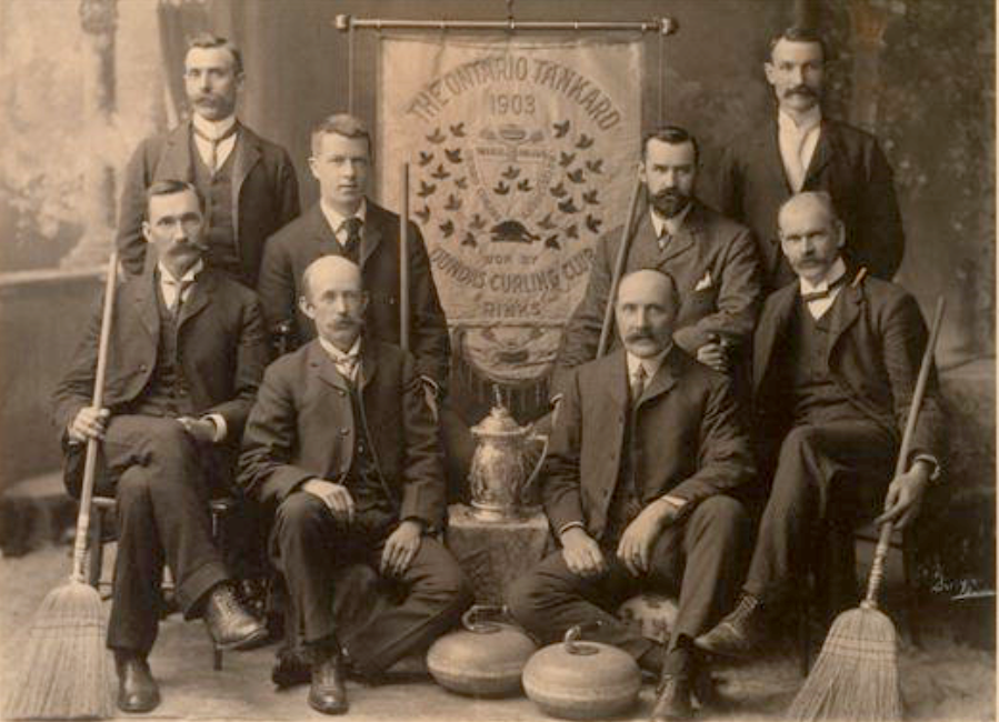 Chub Collins, shown with the "Dundas Curling Club - Winners of the Ohio Tankard - 1903" Dr. Lawson - Second, D. C. Wilson - Lead, Dr. T. A. Bertram - Skip, W. S. Hendry - Vice-Skip, H. C. Davis - Second, Jim Peare - Lead, H. F. Powell - Vice-Skip, Chub Collins - Skip.